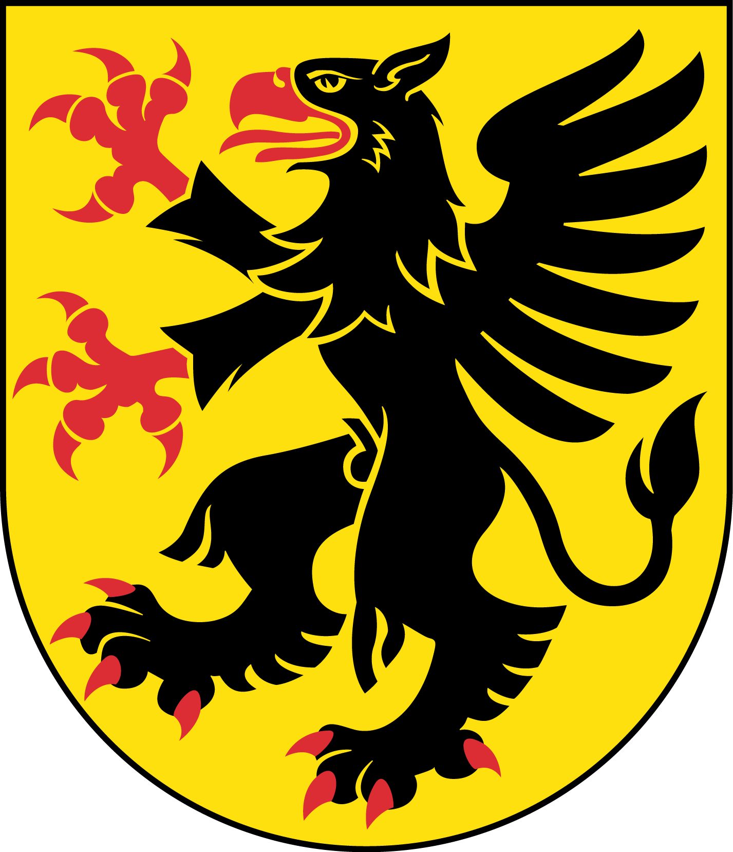 Coat of arms of the province of Södermanland, Sweden. Painted by Vladimir A. Sagerlund when he was the heraldic artist at the National Archives of Sweden (Riksarkivet). This representation of a coat of arms is potentially different from the one used by the armiger (municipality or organisation) in question. = ⇑“Sable, a lionrampant or” This coat of arms was drawn based on its blazon which – being a written description – is free from copyright. Any illustration conforming with the blazon of the arms is considered to be heraldically correct. Thus several different artistic interpretations of the same coat of arms can exist. The design officially used by the armiger is likely protected by copyright, in which case it cannot be used here.Individual representations of a coat of arms, drawn from a blazon, may have a copyright belonging to the artist, but are not necessarily derivative works. Further information: Commons:Coats of arms and Template:Coa blazon